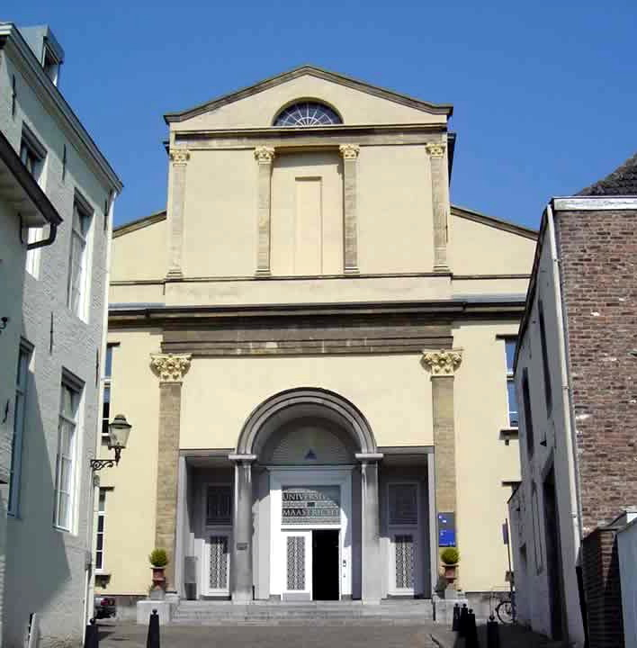 University of Maastricht, the Netherlands. Facade of main administrative building at Minderbroedersberg 6A, a former Franciscan church and (later) judicial court.